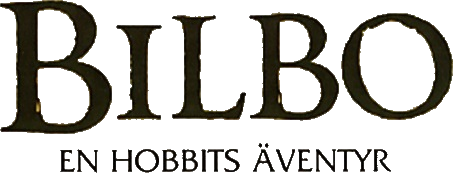 The text on the cover of the 2001 edition of "Bilbo – En hobbits äventyr" (The Hobbit) in Swedish. Published by Rabén & Sjögren.